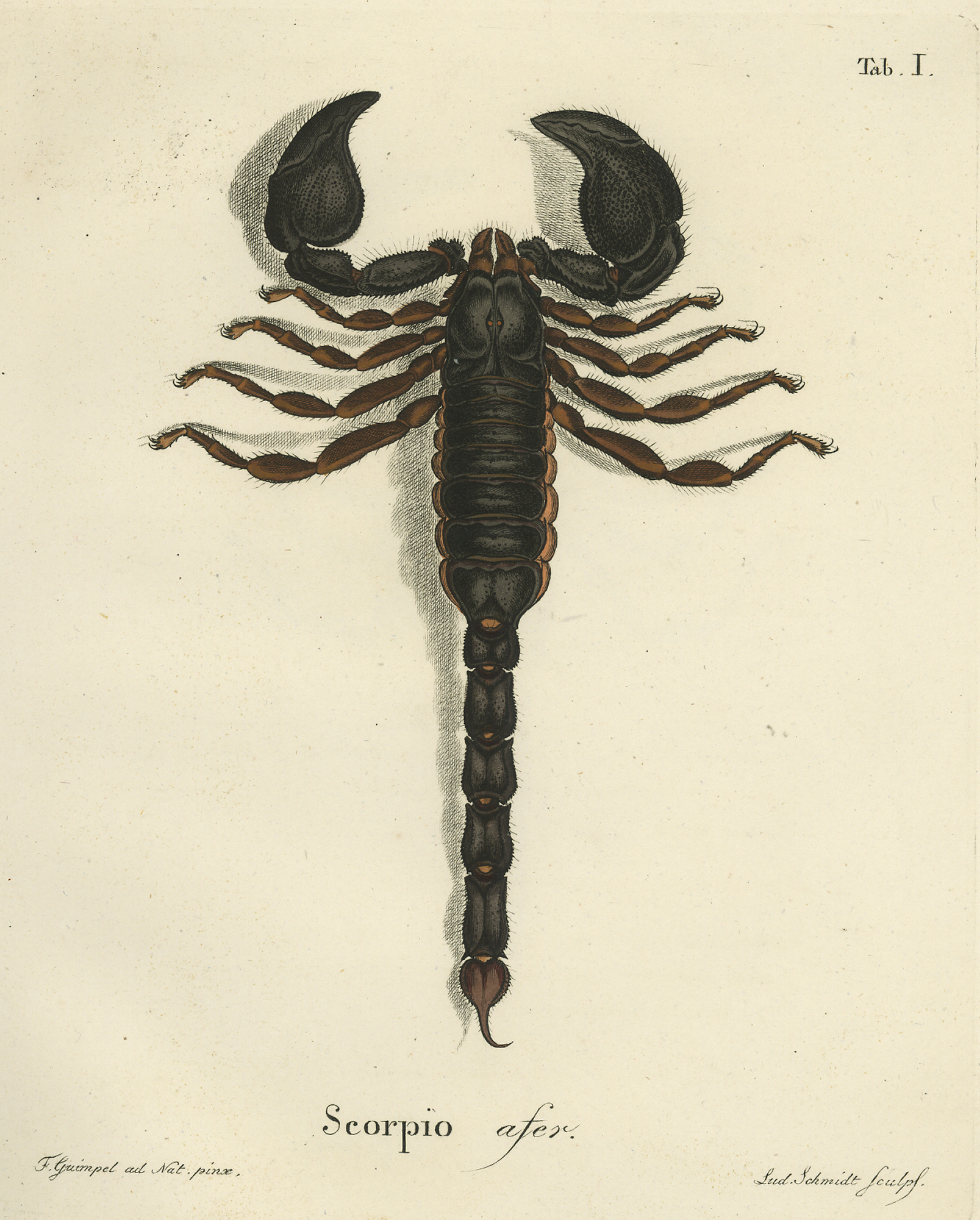 Scorpio afer = Heterometrus indus (Geer, 1778)